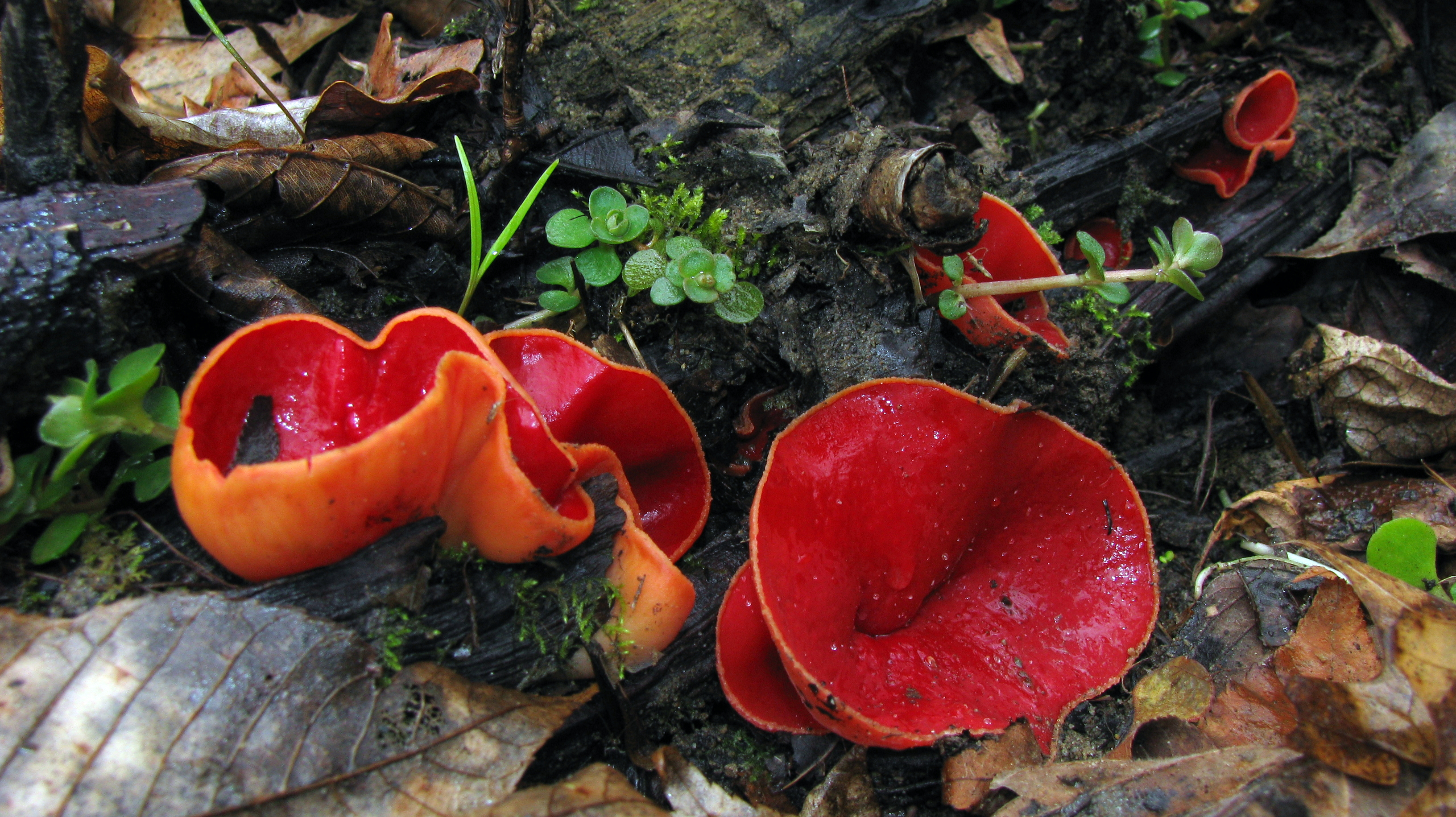 The cup fungus Sarcoscypha austriaca (O. Beck ex Sacc.) Boud. Specimens photographed in Strouds Run State Park, Athens, Ohio, USA.